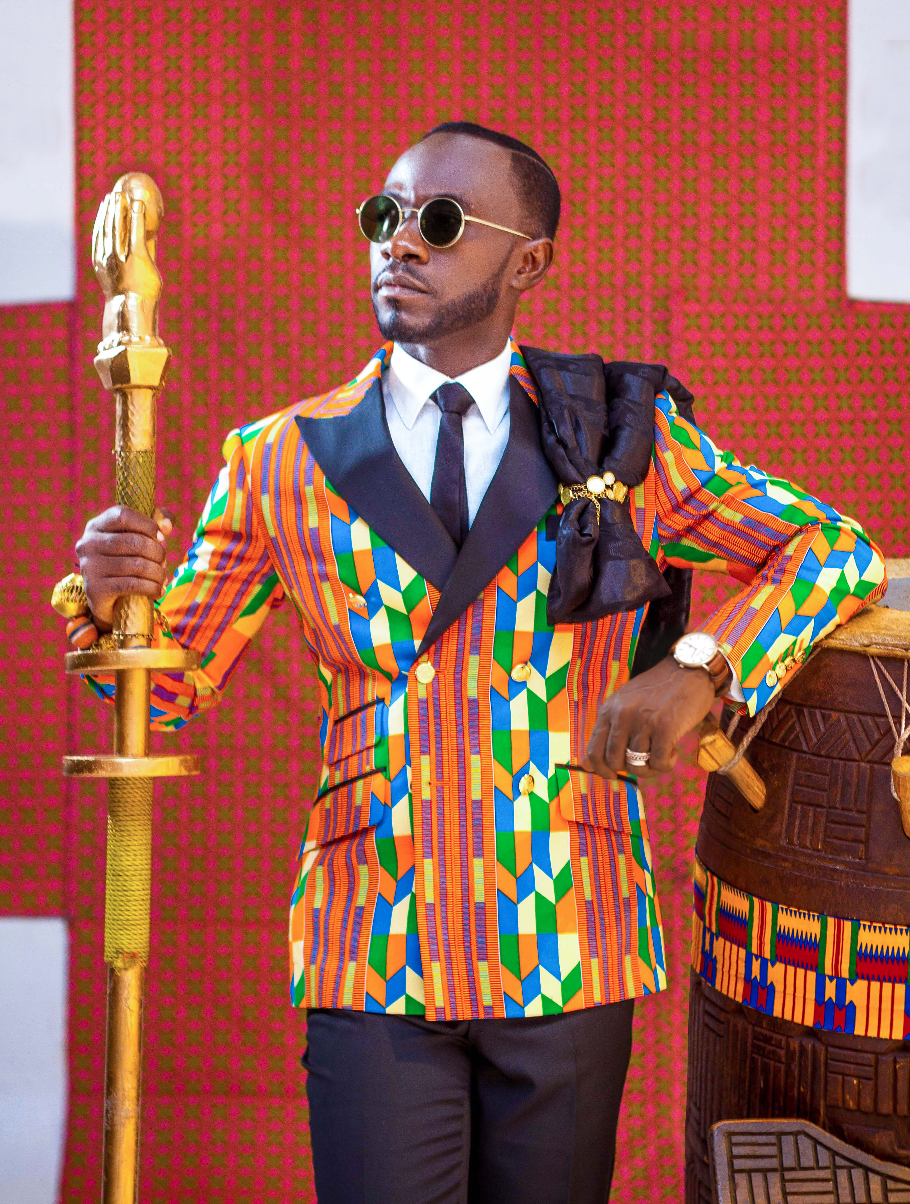 Okyeame Kwame in a new pose for his new album